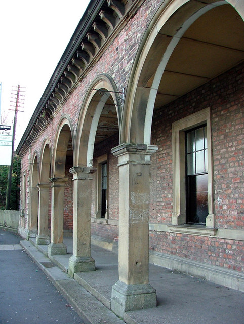 Pocklington Station Arches, Pocklington, East Riding of Yorkshire, England.The original entrance to the railway station in Pocklington. The building was designed by GT Andrews and the arches were a feature he employed on many of his buildings. The station was served by the former York - Beverley line and following closure was acquired by Pocklington School who have used it as a sports hall.